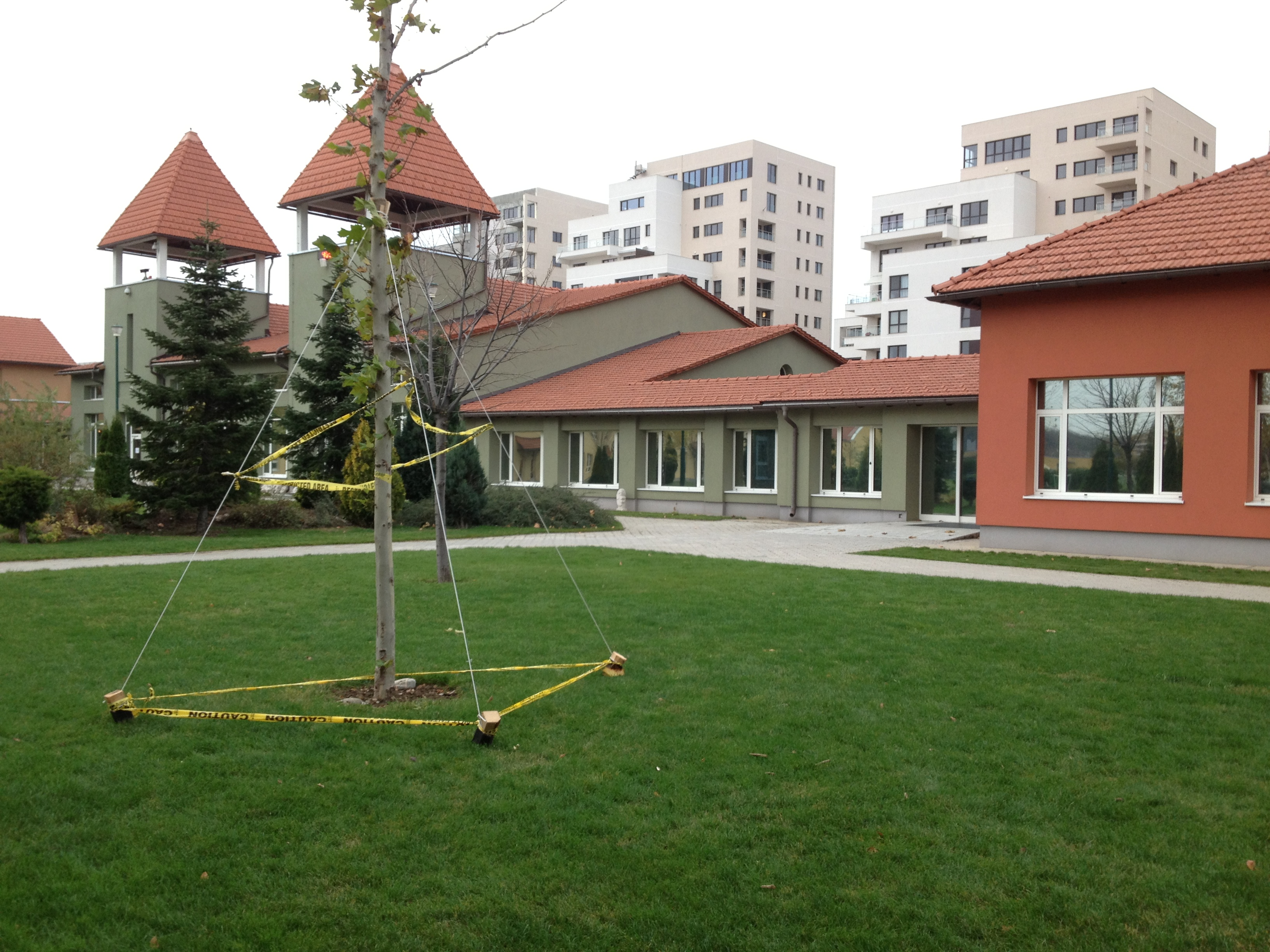 Exterior courtyard with Library Media Center in the background and student cafeteria to the right